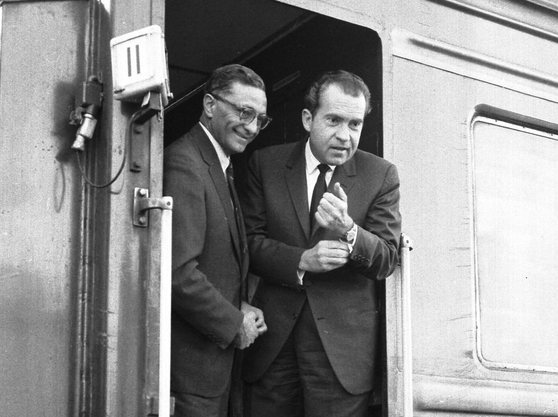 Photograph of the U.S. President Richard Nixon on a train in Lahti, Finland, leaving for Moscow.